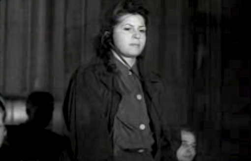 Luise Danz (*1917), Auschwitz Trial Kraków - "The Trial of Forty German Butchers of Auschwitz Camp," November 24-26, 1947